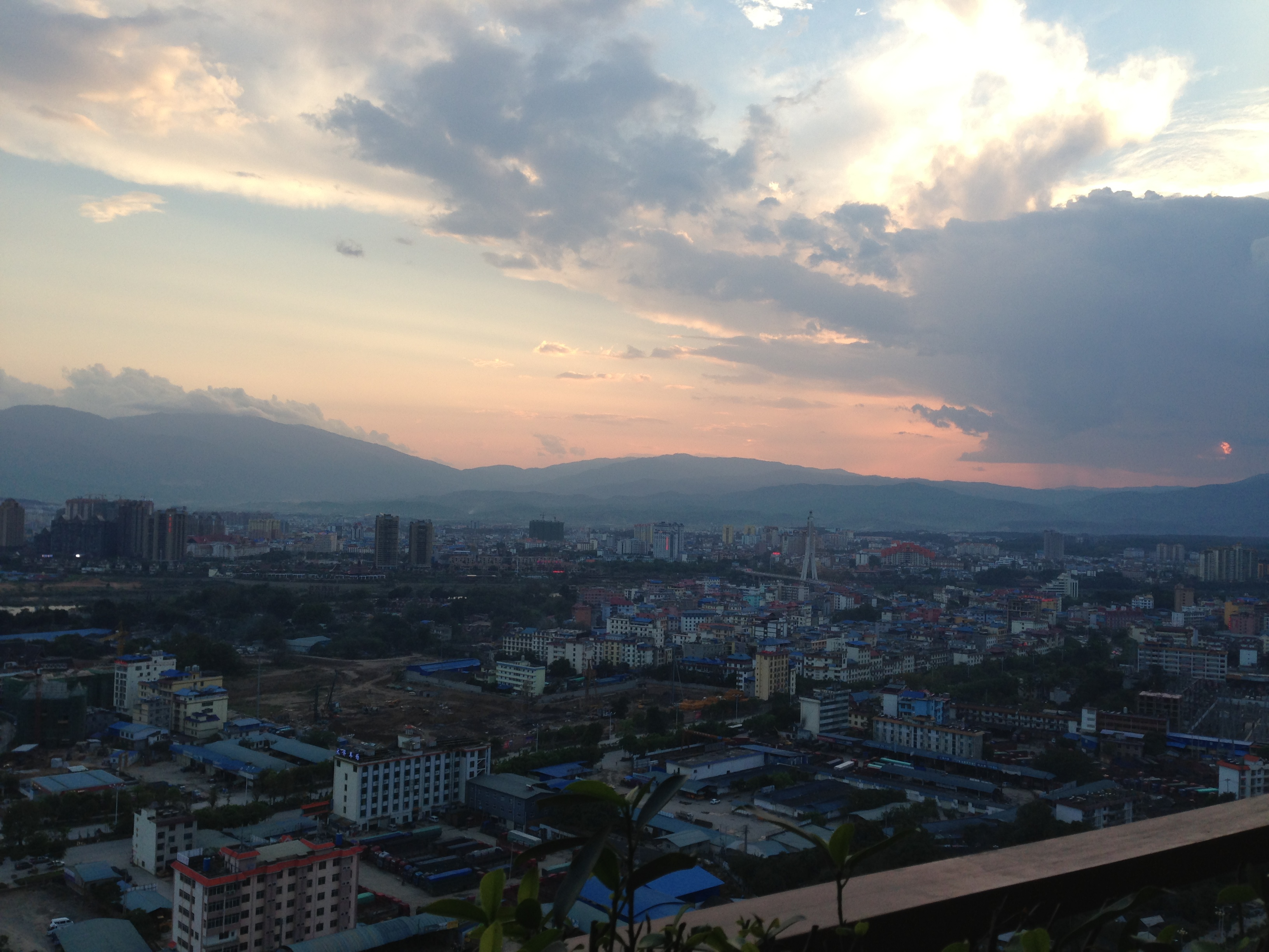 Mountain view of the city of Jinghong, Yunnan, China in 2015.